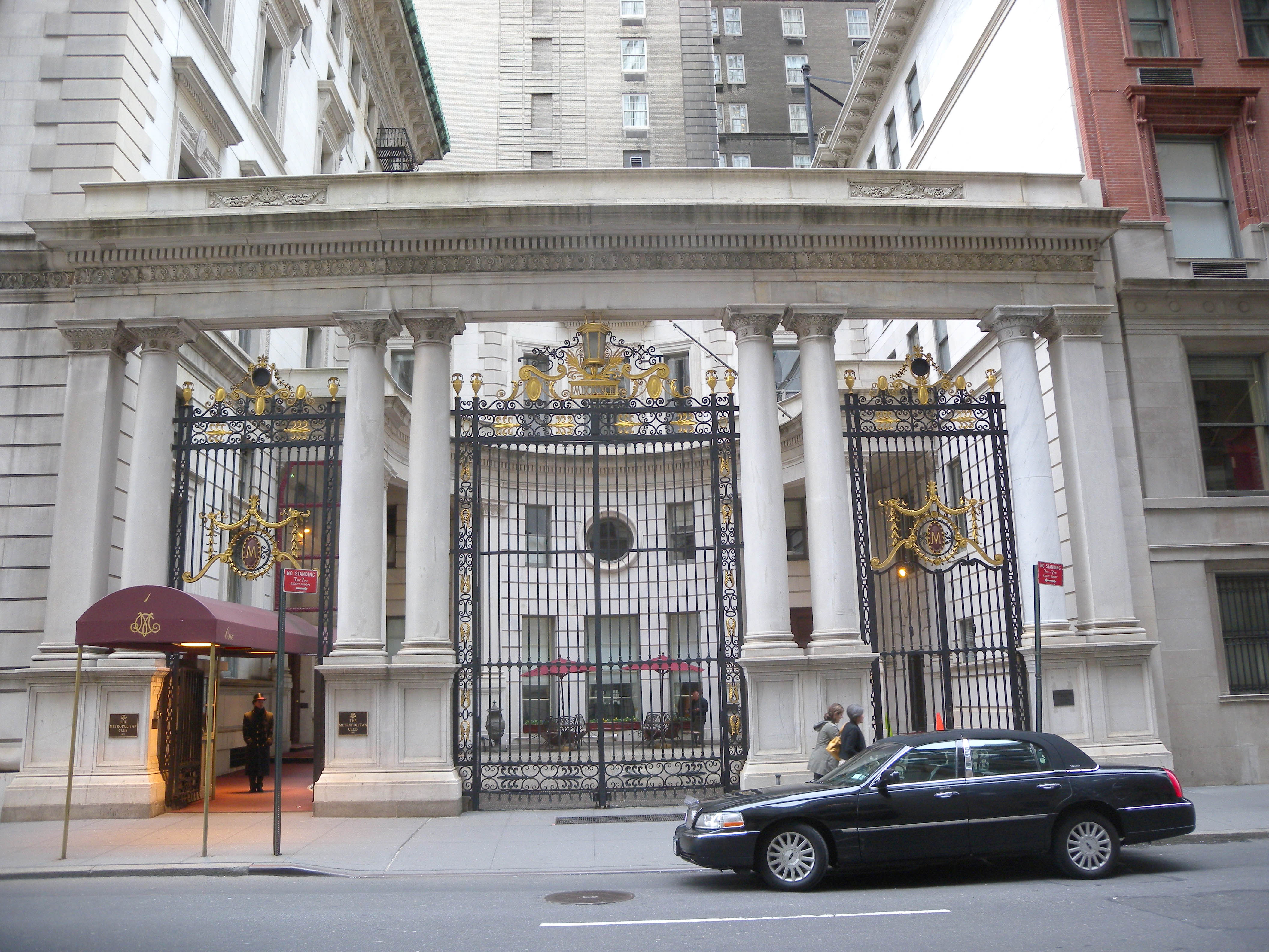 Looking north across 60th St at Metropolitan Club on a cloudy afternoon. See File:Metro Club 5 Av jeh.jpg for corner view.